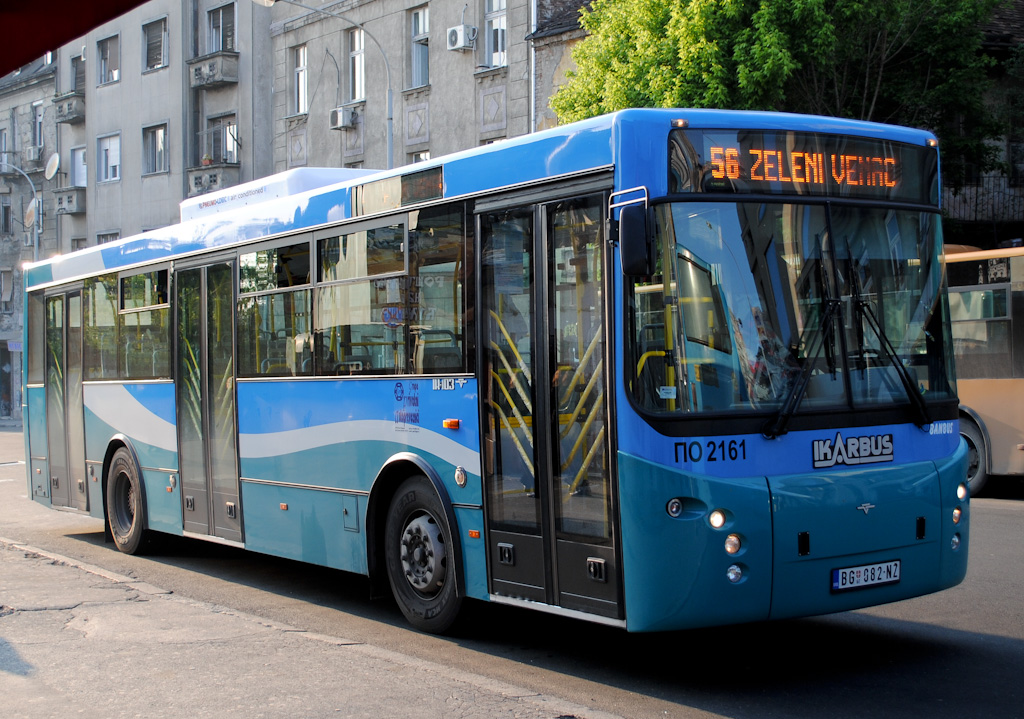 IK-103 Avancity Banbus